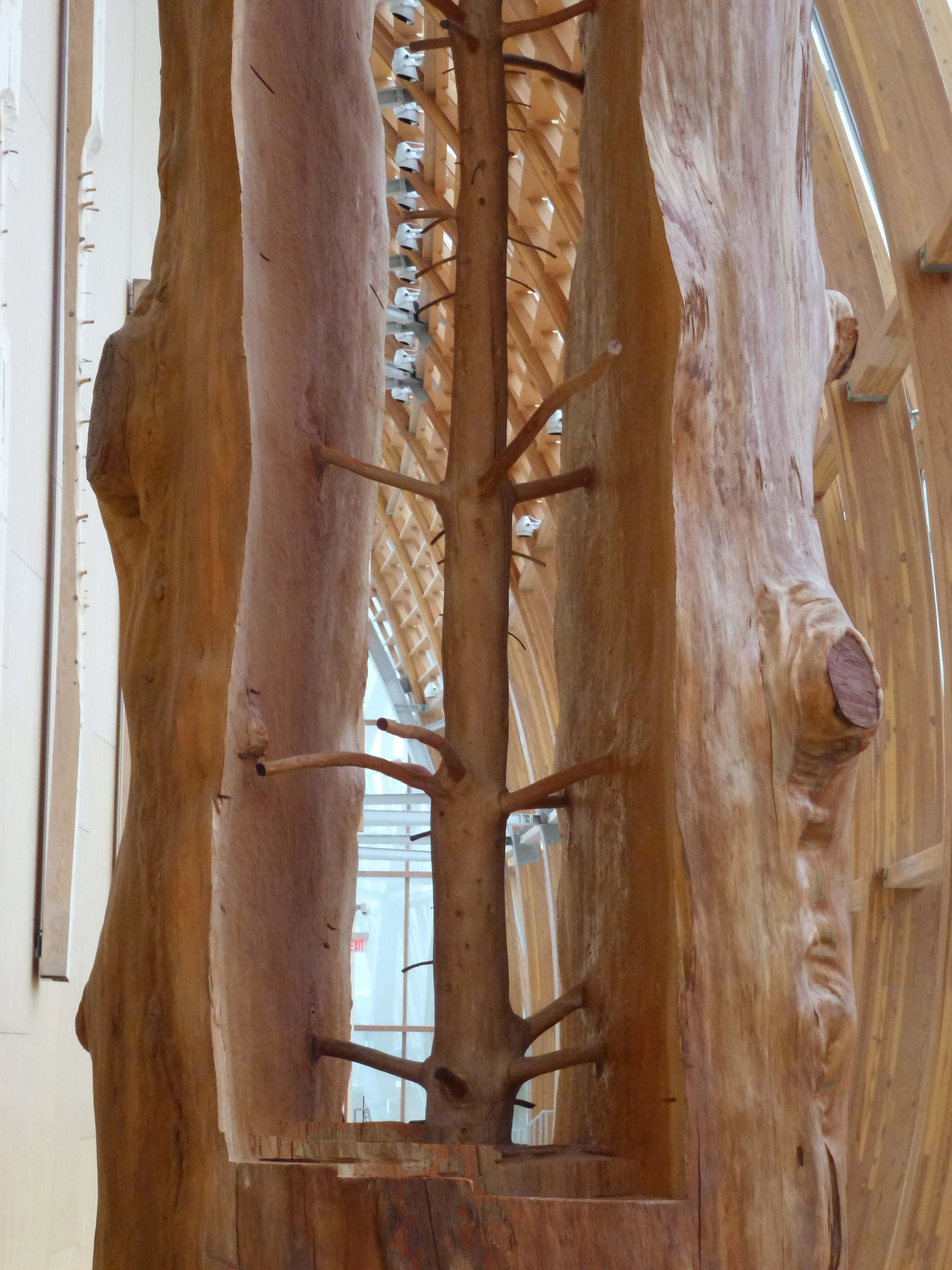 One of the works of Giuseppe Penone, entitled "The Hidden Life Within" created by carving away portions of the tree and revealing the earlier stages of the trees life. On exhibit at the Art Gallery of Ontario